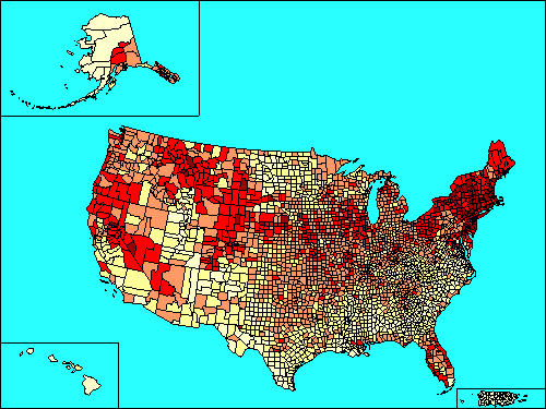 Distribution of Irish Americans according to the 2000 Census